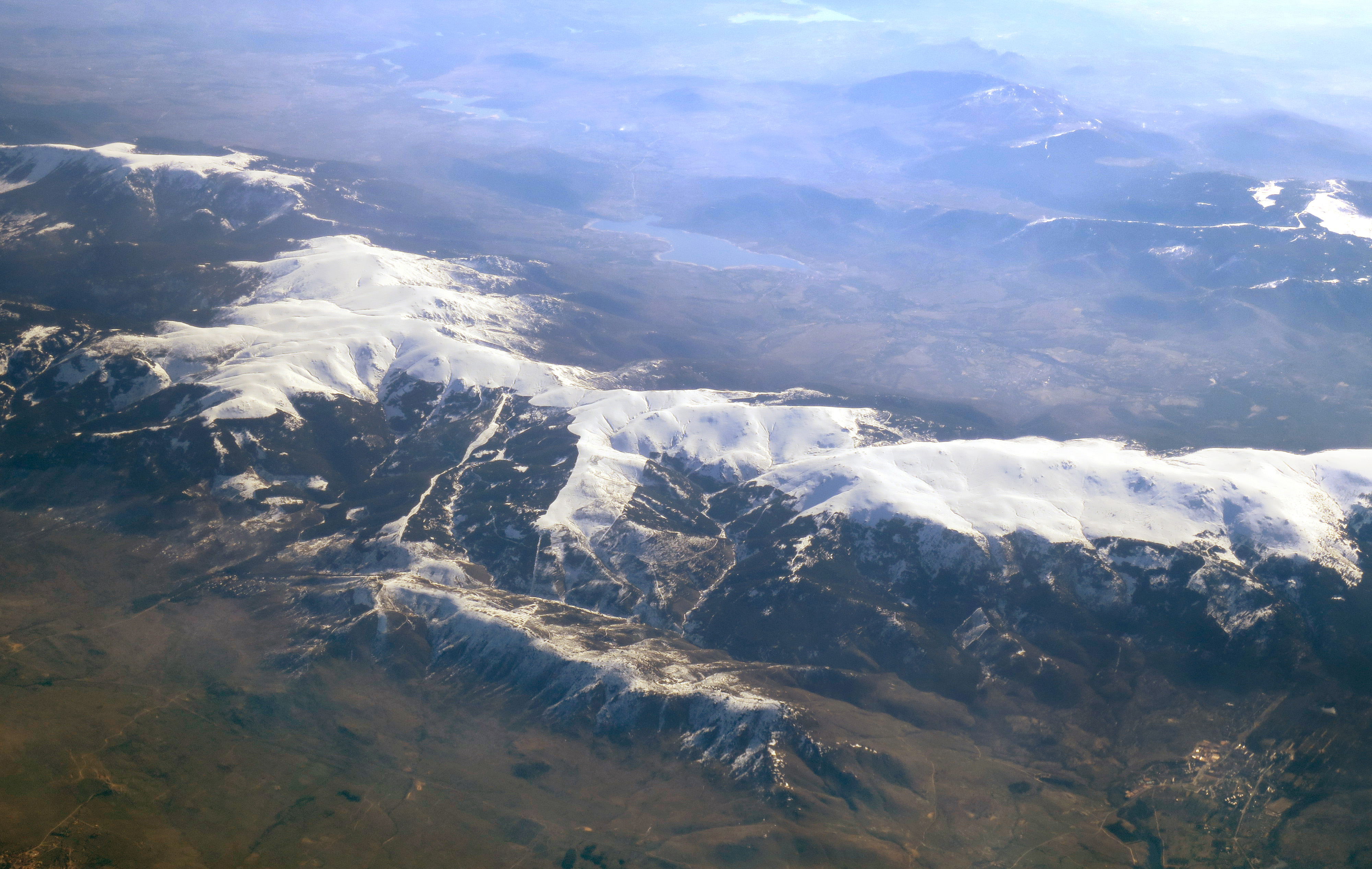 An aerial view of part of the Montes Carpetanos which are north of Madrid. Behind the mountains is the valle del Lozoya.